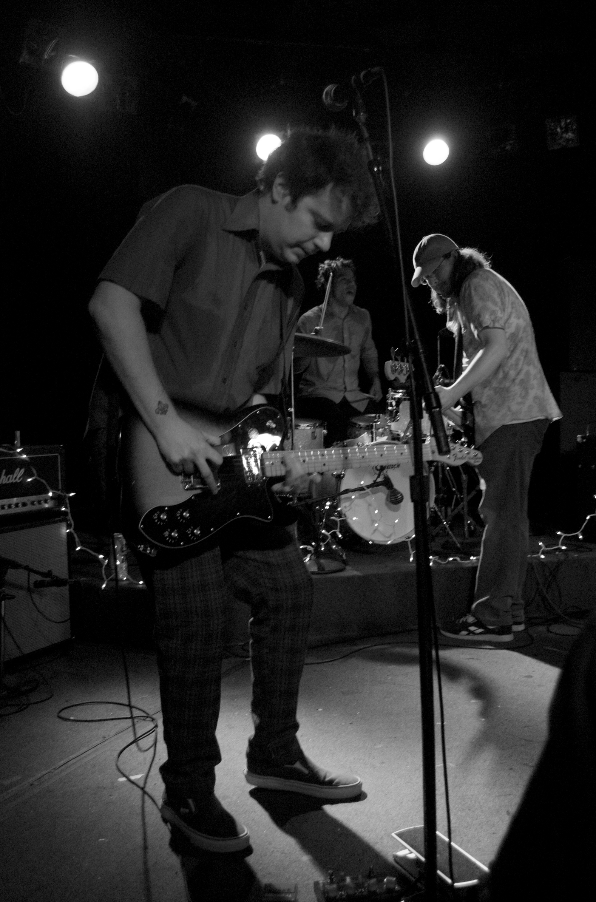 The Big Cats perform in Little Rock Arkansas.